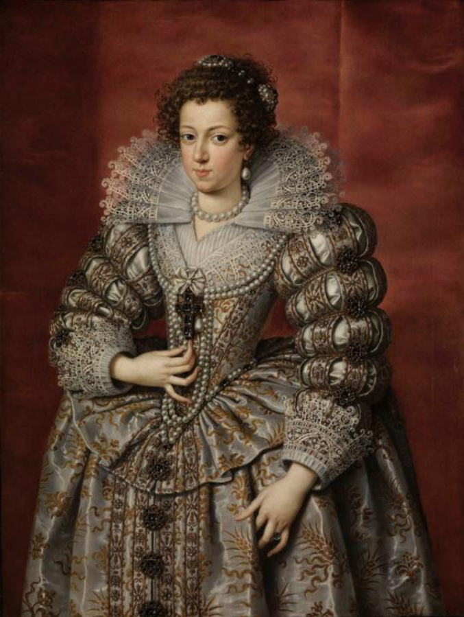 Anne of Austria, Infanta of Spain and Queen of France as consort of Louis XIII.